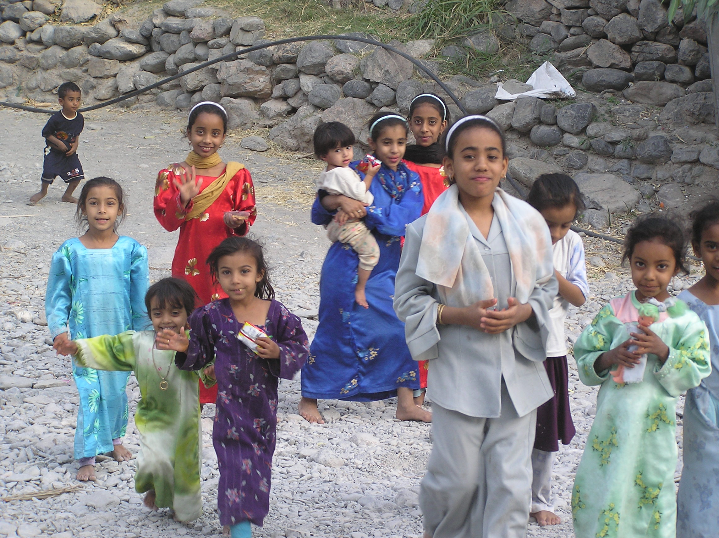 Oman March 2004 (120). Children